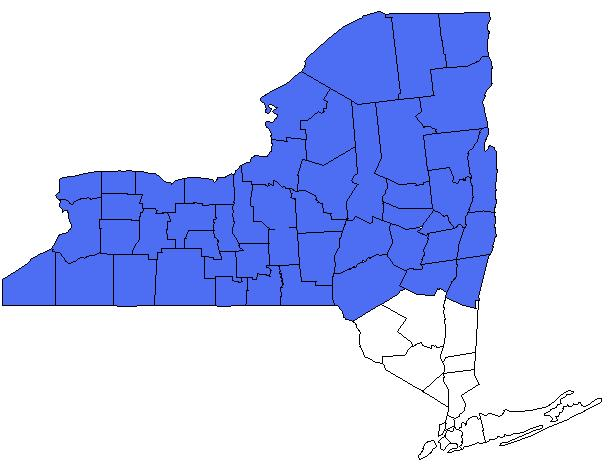 Upstate New York is in blue